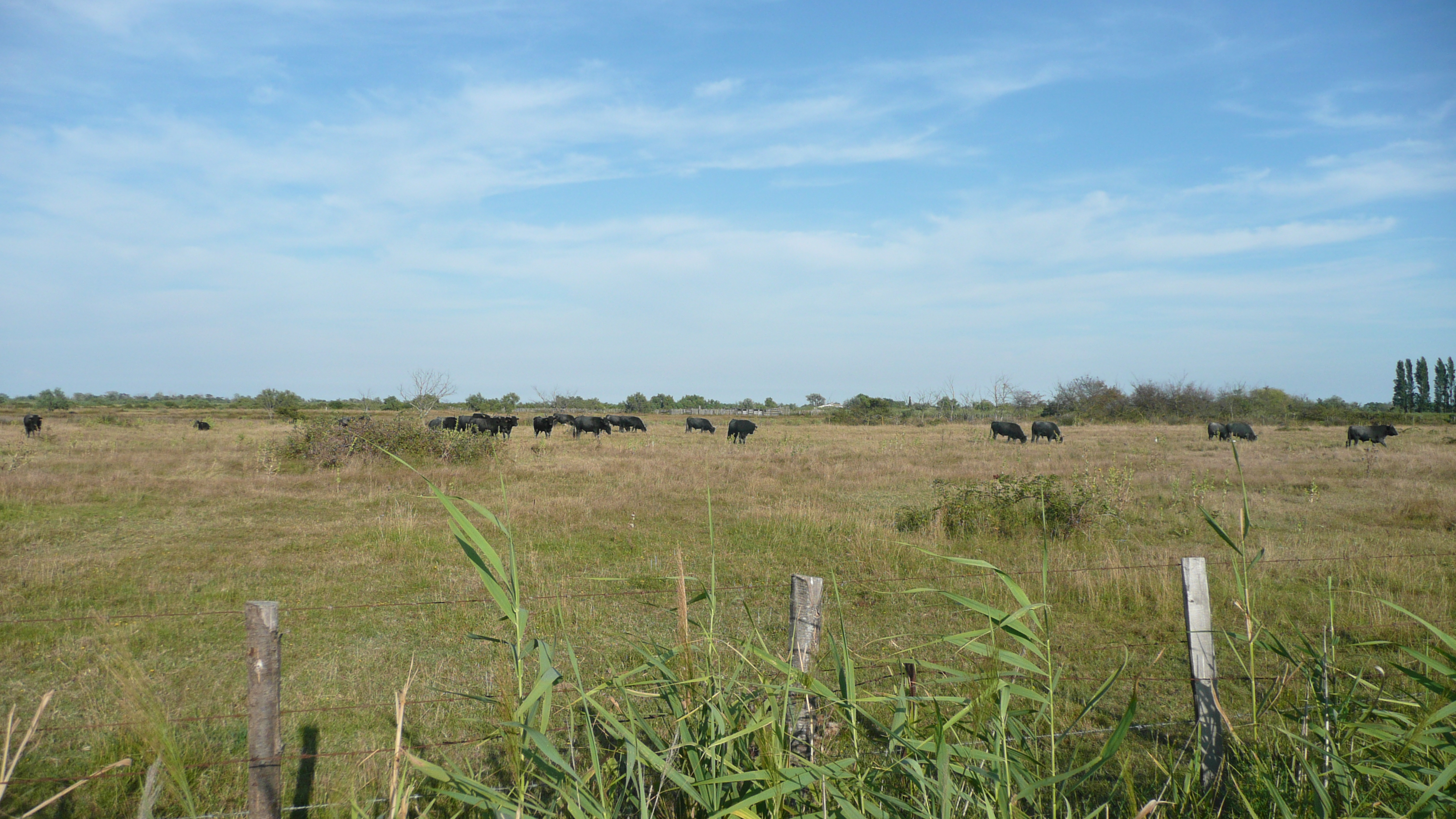 Black cattles in the Camargue